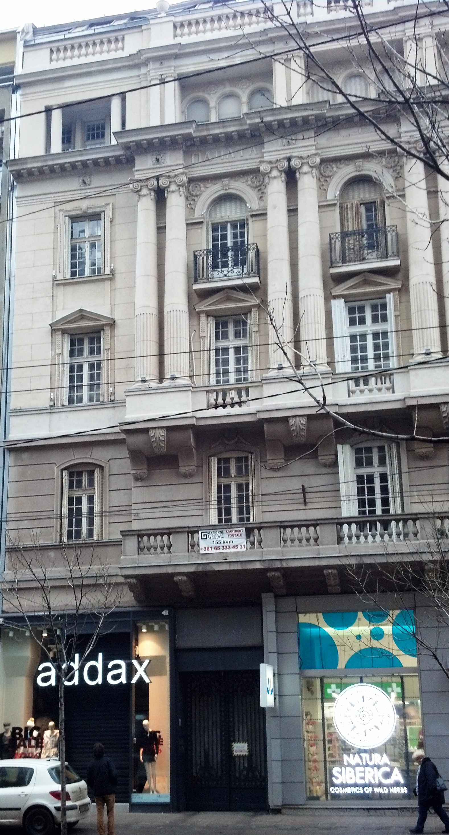 Museum of Paja Jovanović in Belgrade